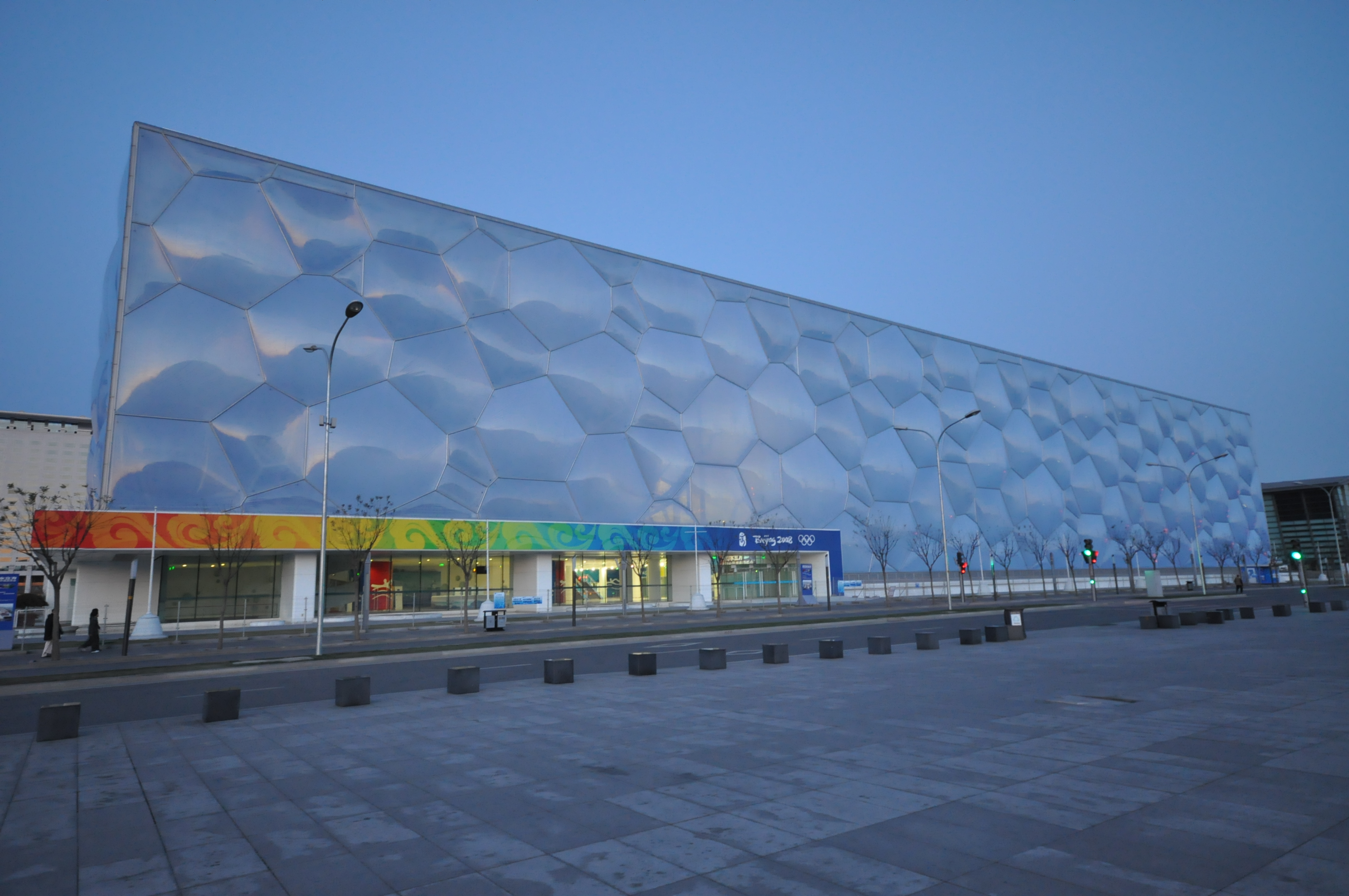 In July 2003, the Water Cube design was chosen from 10 proposals in an international architectural competition for the aquatic center project. The Water Cube was designed and built by a consortium made up of PTW Architects (an Australian architecture firm), Arup international engineering group, CSCEC (China State Construction Engineering Corporation), and CCDI (China Construction Design International) of Shanghai. The Water Cube's design was initiated by a team effort: the Chinese partners felt a square was more symbolic to Chinese culture and its relationship to the Bird's Nest stadium, while the Sydney based partners came up with the idea of covering the 'cube' with bubbles, symbolising water. Comprising a steel space frame, it is the largest ETFE clad structure in the world with over 100,000 m² of ETFE pillows that are only 0.2 mm (1/125 of an inch) in total thickness. The ETFE cladding allows more light and heat penetration than traditional glass, resulting in a 30% decrease in energy costs. The outer wall is based on the Weaire-Phelan structure, a structure devised from the natural formation of bubbles in soap foam. The complex Weaire-Phelan pattern was developed by slicing through bubbles in soap foam, resulting in more irregular, organic patterns than foam bubble structures proposed earlier by the scientist Kelvin. Using the Weaire-Phelan geometry, the Water Cube's exterior cladding is made of 4,000 ETFE bubbles, some as large as 9.14 meters (30 feet) across, with seven different sizes for the roof and 15 for the walls. The structure had a capacity of 17,000 during the games that is being reduced to 6,000. It also has a total land surface of 65,000 square meters and will cover a total of 32,000 square metres (7.9 acres). Although called the Water Cube, the aquatic center is really a rectangular box (cuboid)- 178 meters (584 feet) square and 31 meters (102 feet) high.